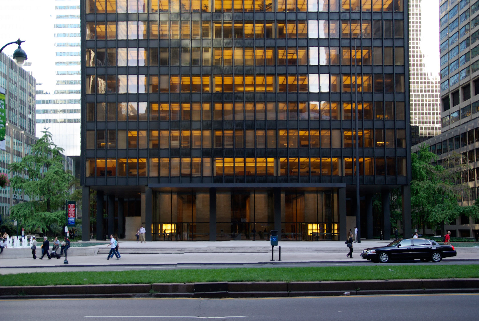 Seagram Building - NewYork - architects: Mies van der Rohe and Philip Johnson